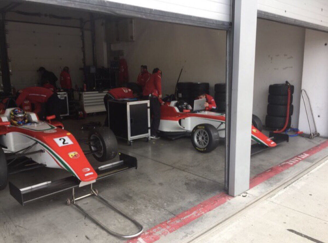 Giardelli Formula 4 test whit Prema Powerteam